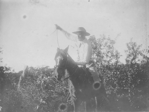 Native Hawaiian man on horse with lasso, probably a paniolo.